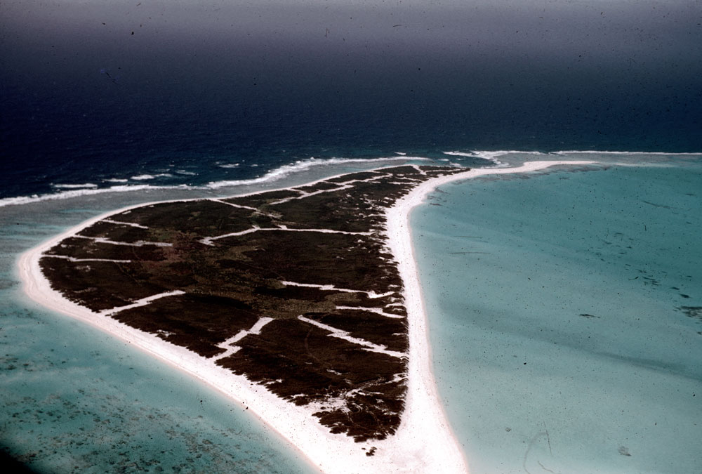 Aerial picture of Green Island, Kure Atoll, Northwestern Hawaiian Islands